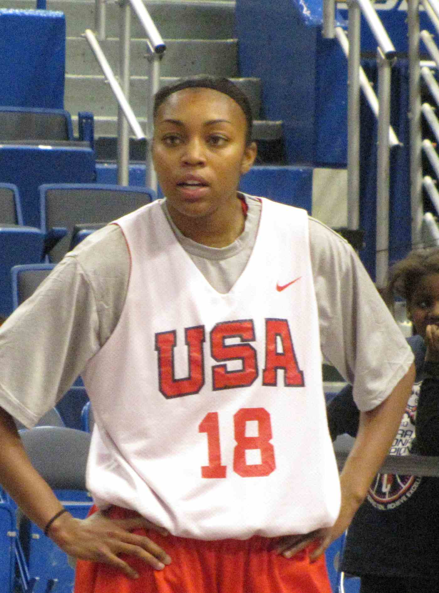 USA Training session for players on the USA National team and USA Select team, beginning training in preparation for the FIBA World Championship. Training took place 14-18 April, culminating in a red-white scrimmage on 18 April at the Veterans Memorial Coliseum in the XL Center, Hartford Connecticut